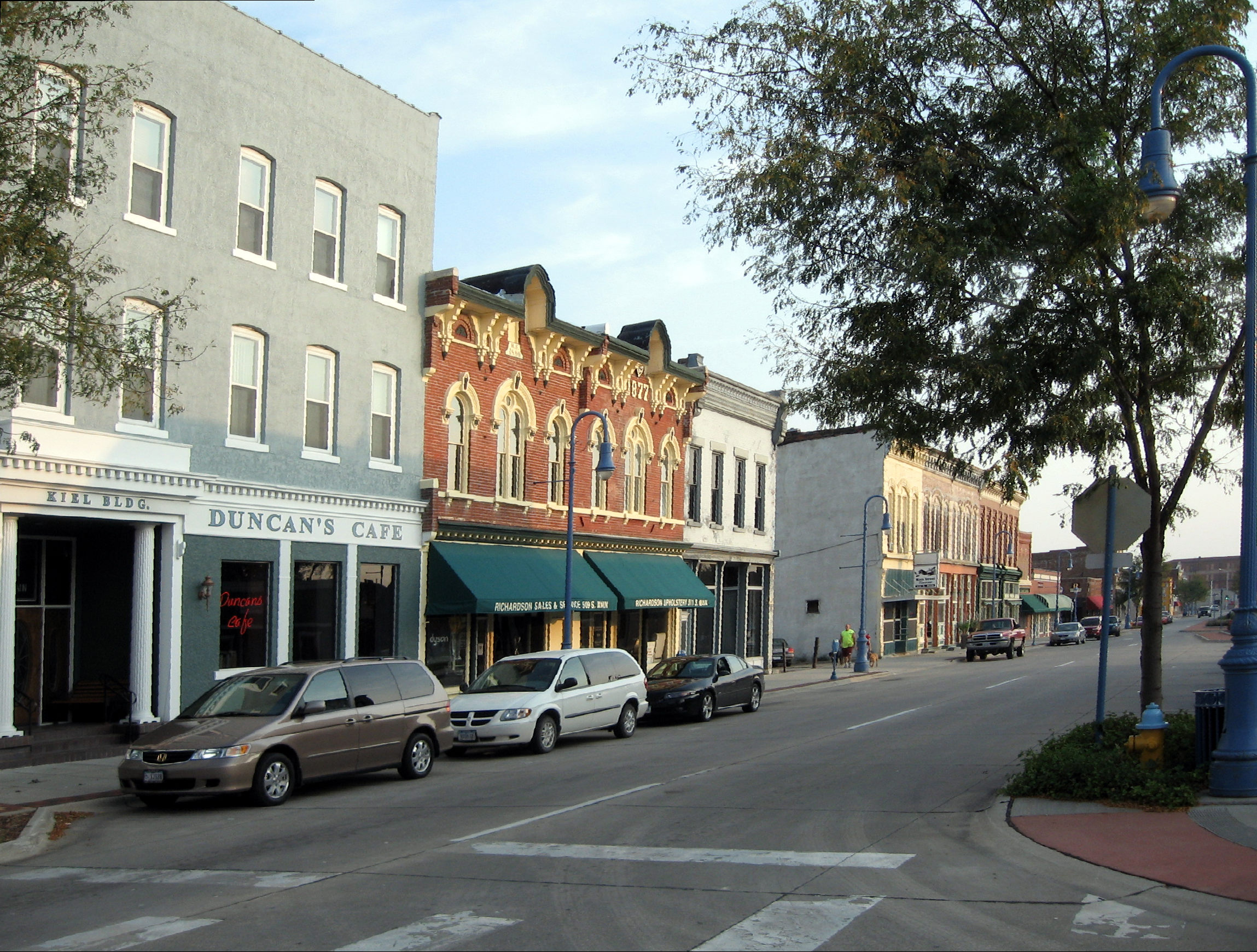 Council Bluffs Iowa Old Town . This image is an 'digital' rotation or correction of an existing image.